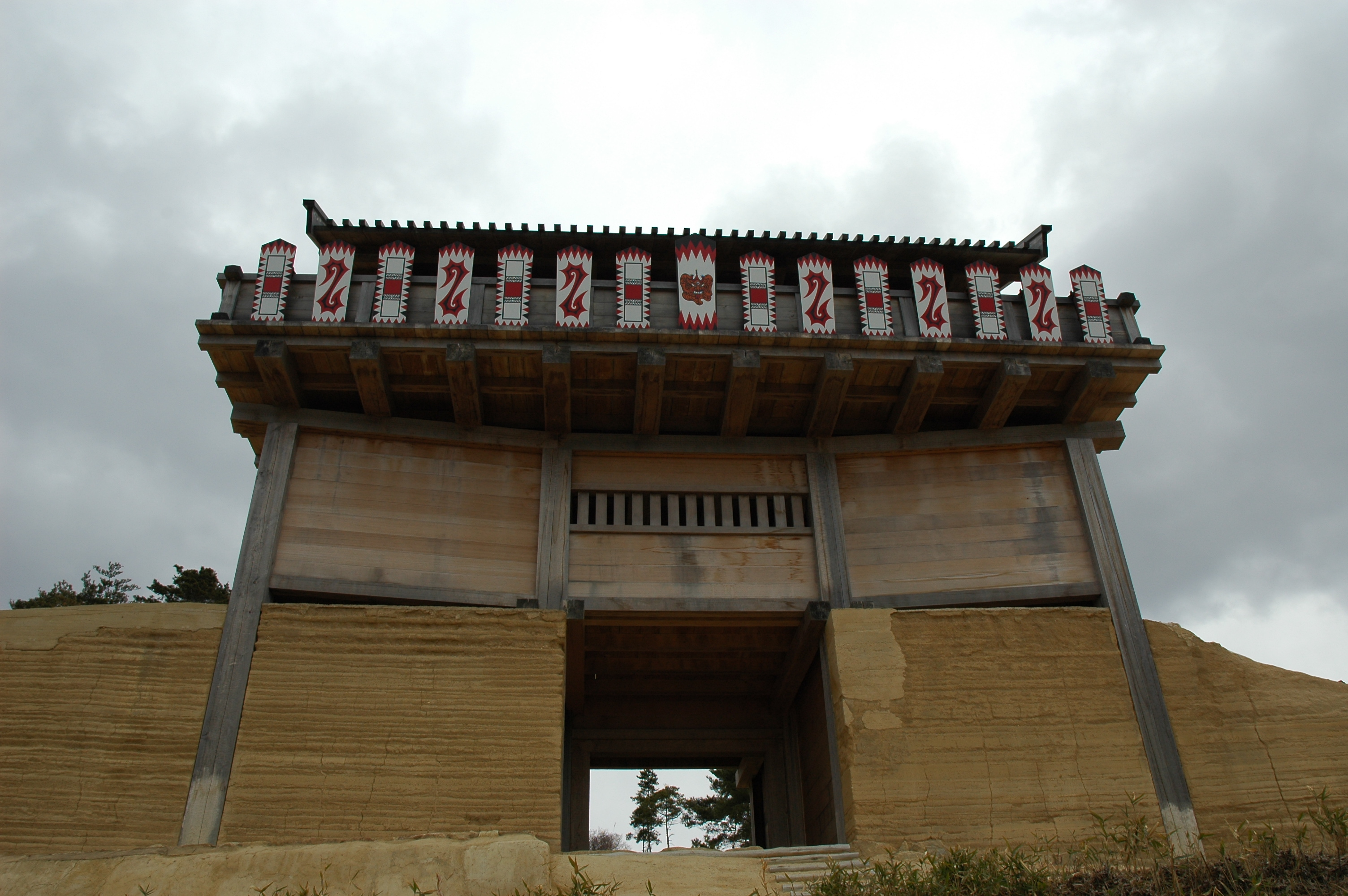 photo of Kinojō Nishi mon(western gate).It was rebuilt in 2004.